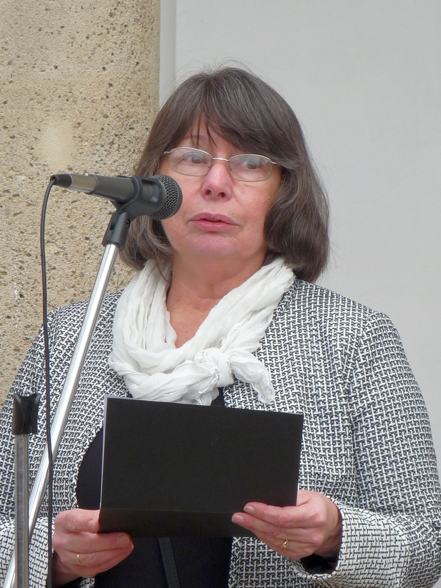 Mrs. Paula Zsidi (1952-) Hungarian archaeologist and museologist, director of the Aquincum Museum during the ceremony of unveiling the commemorative plaque of Mrs. Klára Póczy in November 2015.